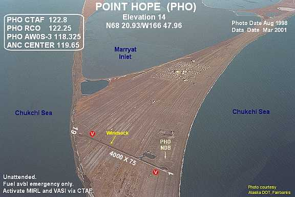 Point Hope Airport (PHO) Oblique-Southwest aerial photo in Alaska, United States.